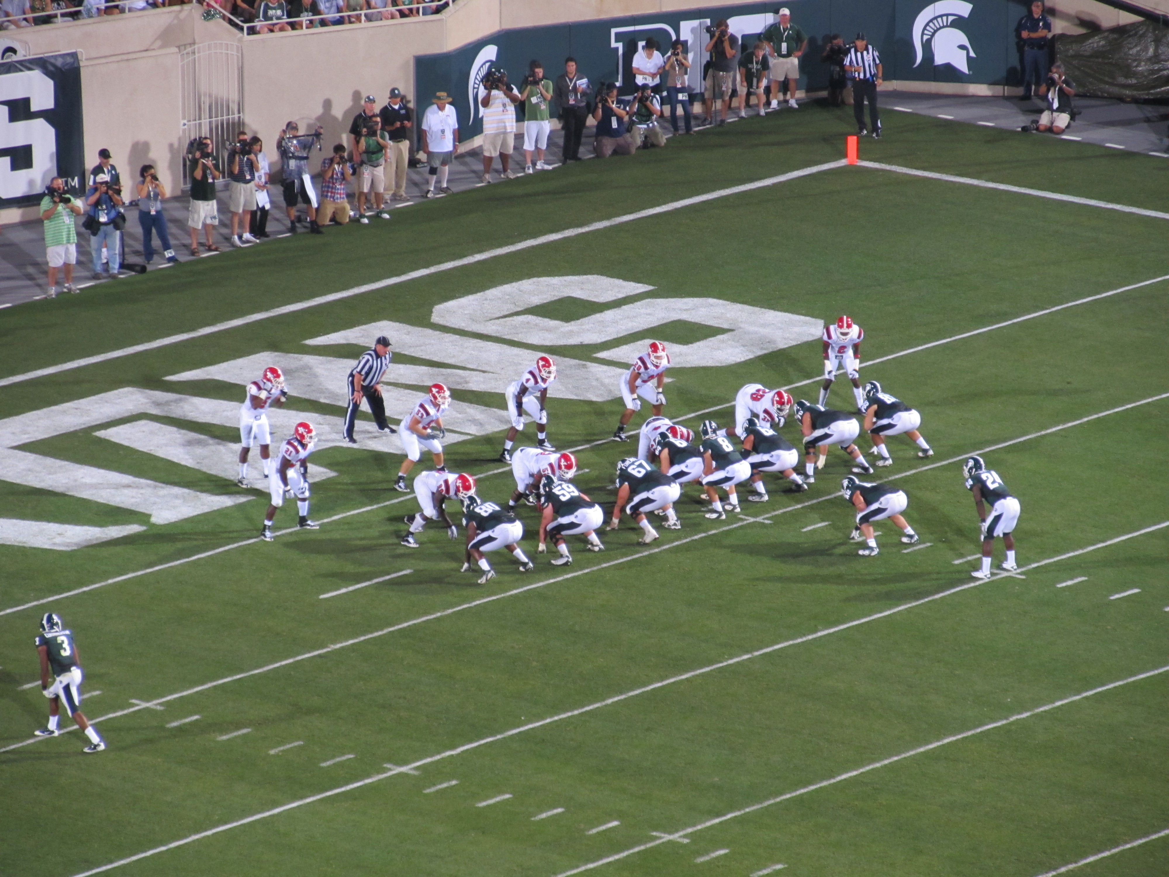 The 2011 Michigan State Spartans football team offense at home competing against the 2011 Youngstown State Penguins football team defense.